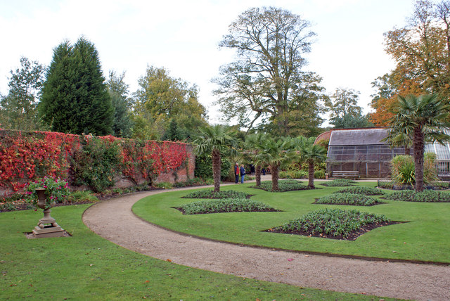 Walled Garden At Calke Abbey